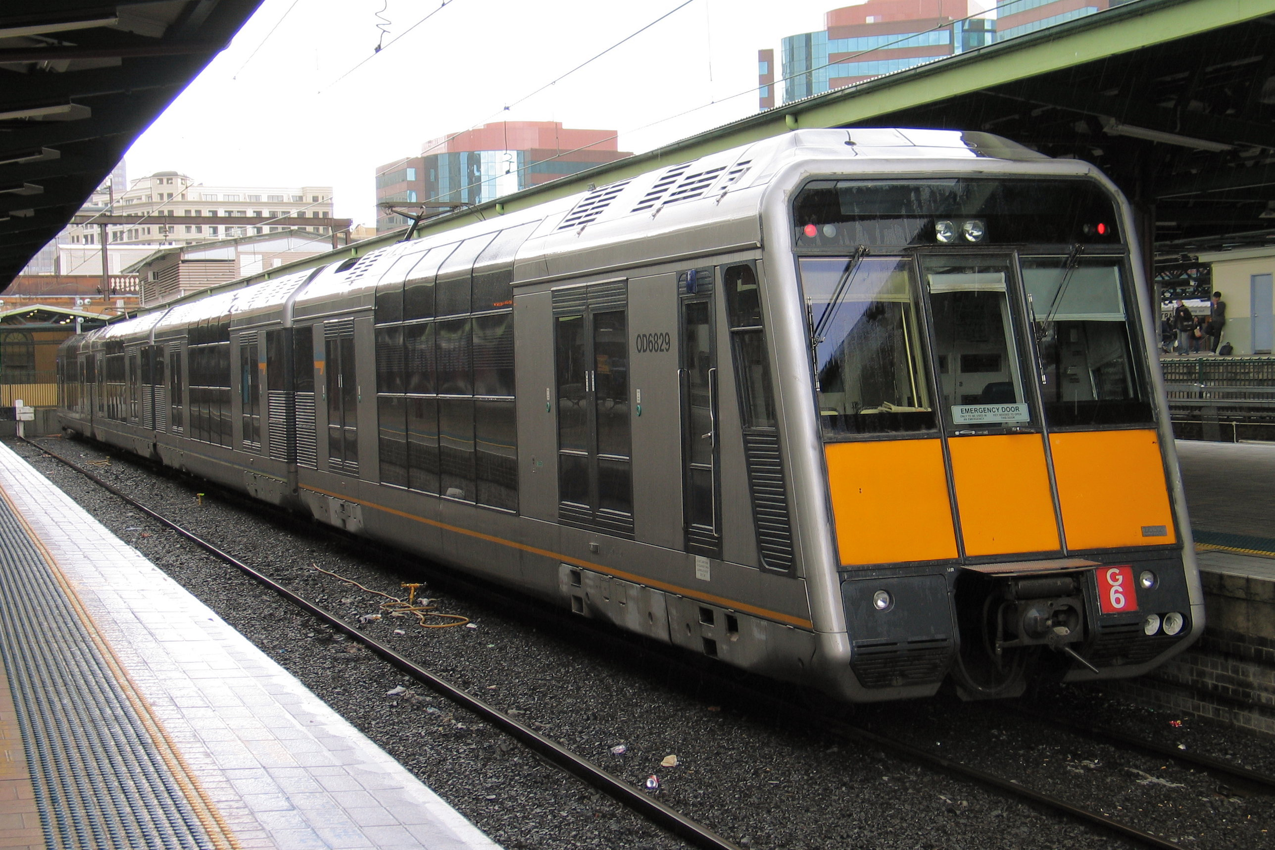 Tangara set G6 at Sydney Central.